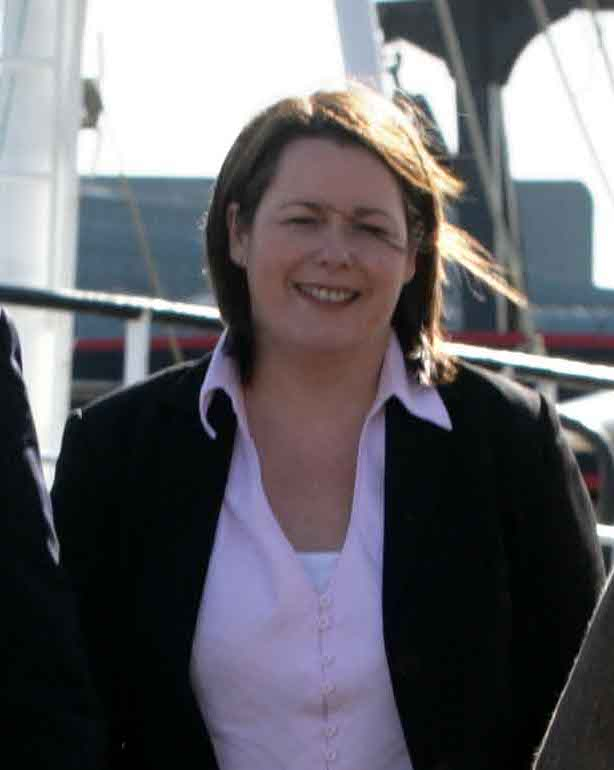 Michelle Gildernew, Irish politician